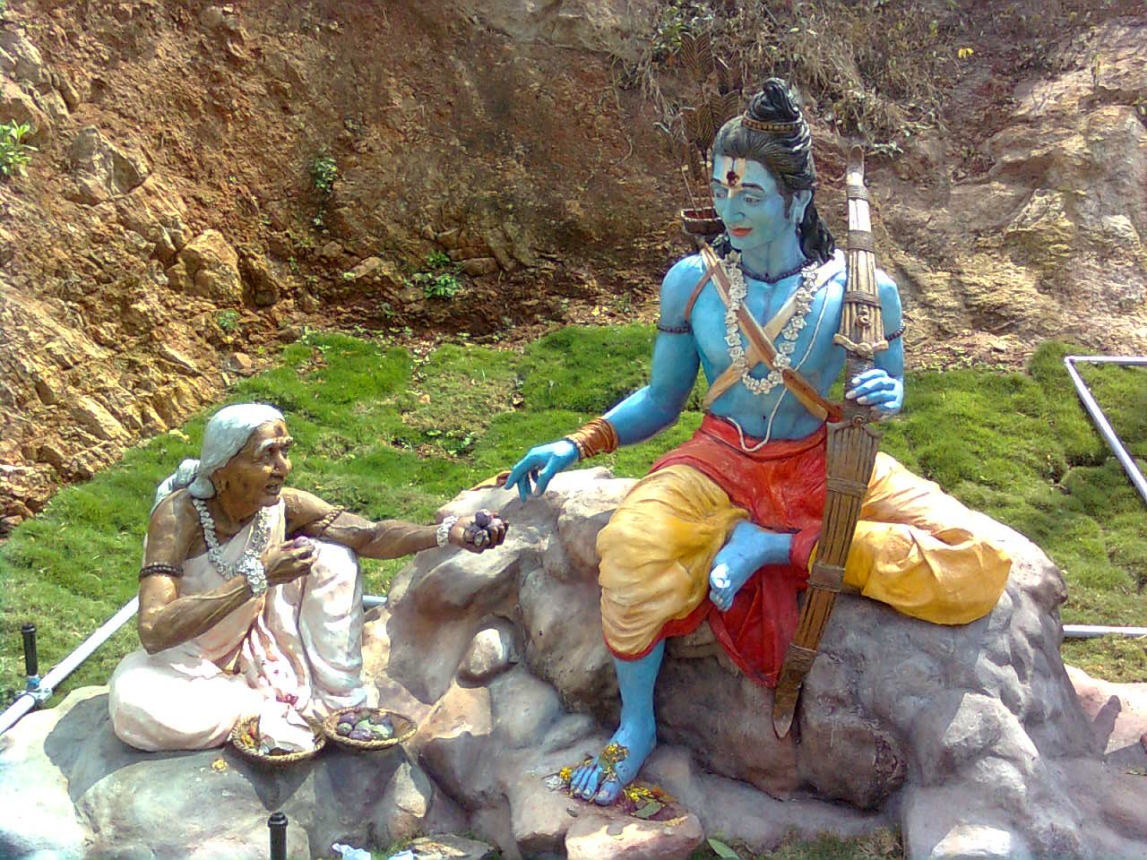 Devotee Sabari offering fruits to Lord Rama (Statues at Simhachalam, Andhra Pradesh)